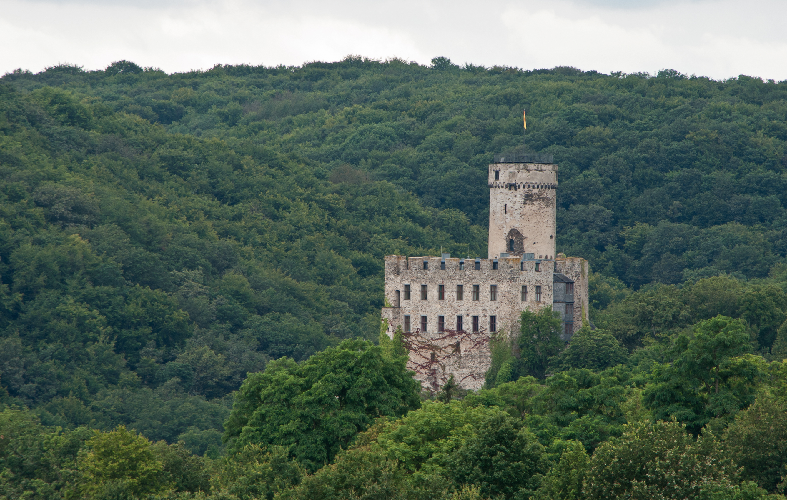 Pyrmont Castle (Rhineland-Palatinate, Germany) – view from east, near Pillig This is a photograph of an architectural monument.It is on the list of cultural monuments of Roes This photograph was taken with a Nikon D3000